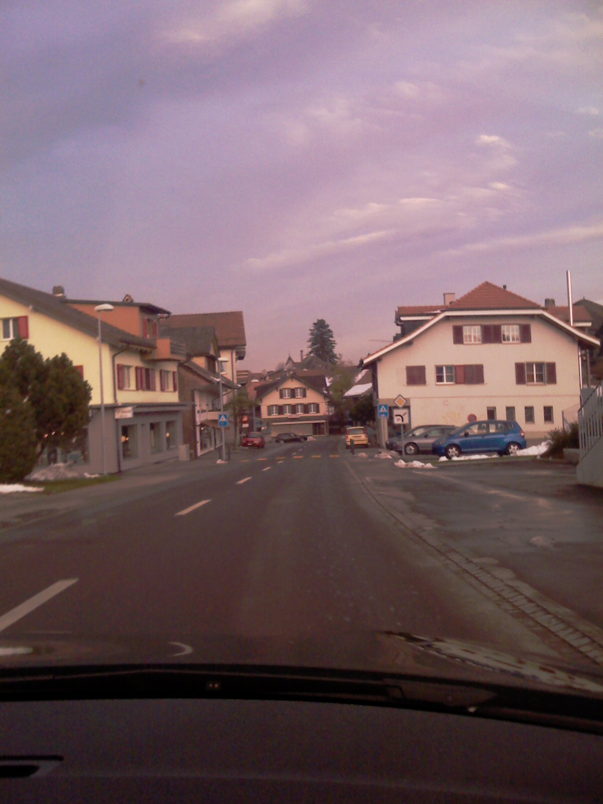 Schwarzenburg, Municipality of Wahlern, Canton of Berne, SwitzerlandEsperanto: Schwarzenburg, Komunumo Wahlern, Kantono Berno, Svislando